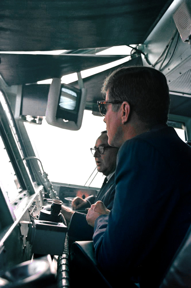 President Kennedy with Governor Brown aboard the USS Kittyhawk, reviewing exercises of the Pacific Fleet.